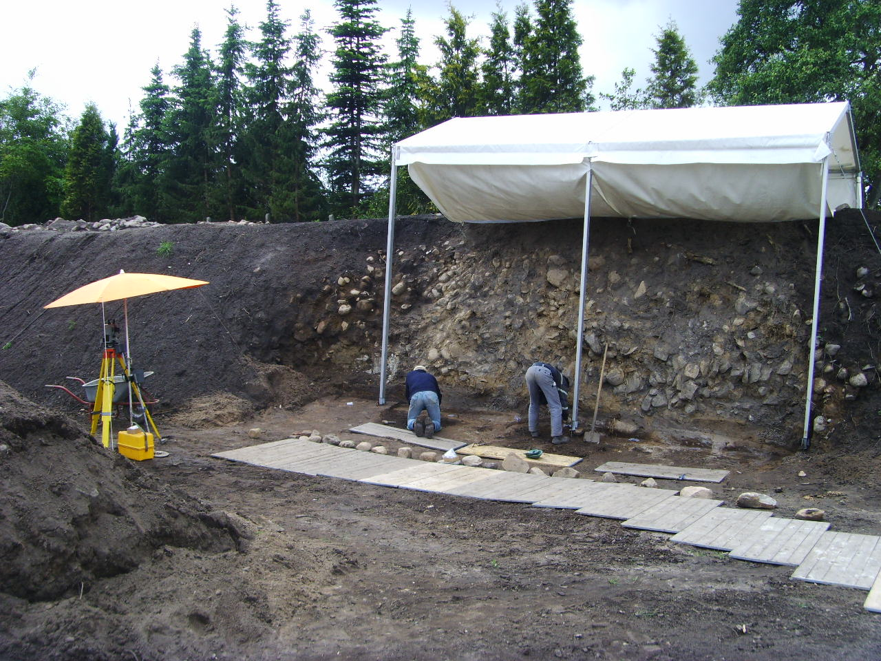 Archaeological excavation of a lot of defense wall Dannevirke.